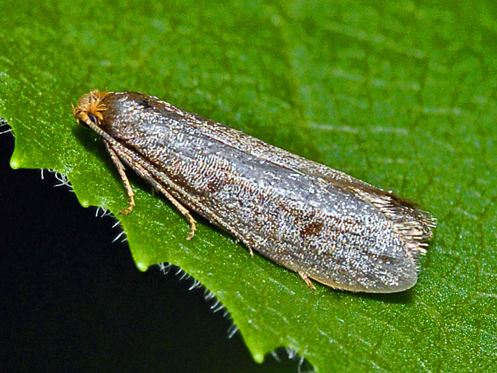 Pseudatemelia cf. flavifrontella. Passo del Faiallo, Genova, Italy